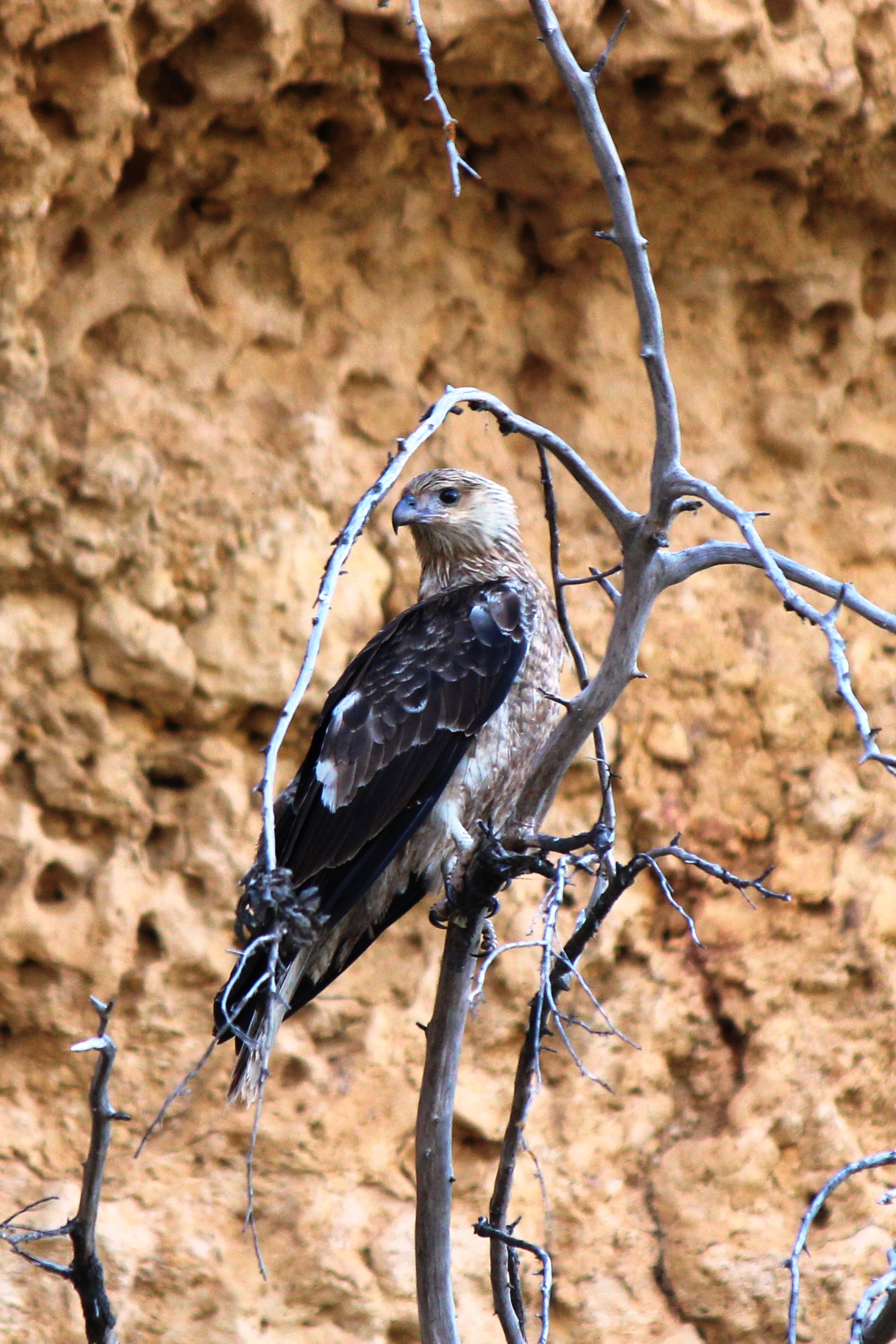 Little Eagle, taken from a boat on the Murray River, near Murray Bridge South Australia.